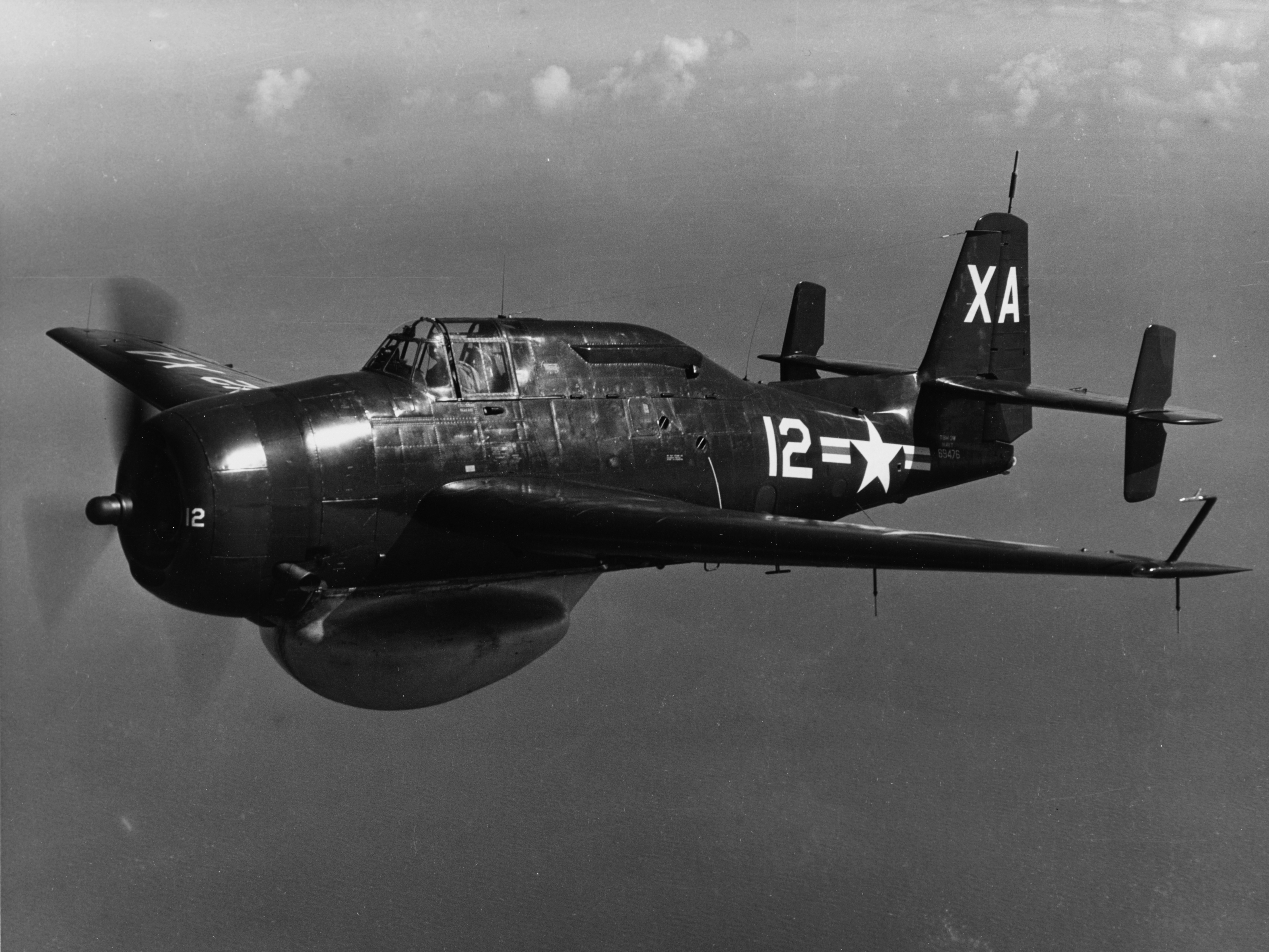 A U.S. Navy Grumman TBM-3W Avenger (BuNo 69476) from Air Test and Evaluation Squadron 1 (VX-1) in flight over Boca Chica, Key West, Florida (USA), circa in the late 1940s.